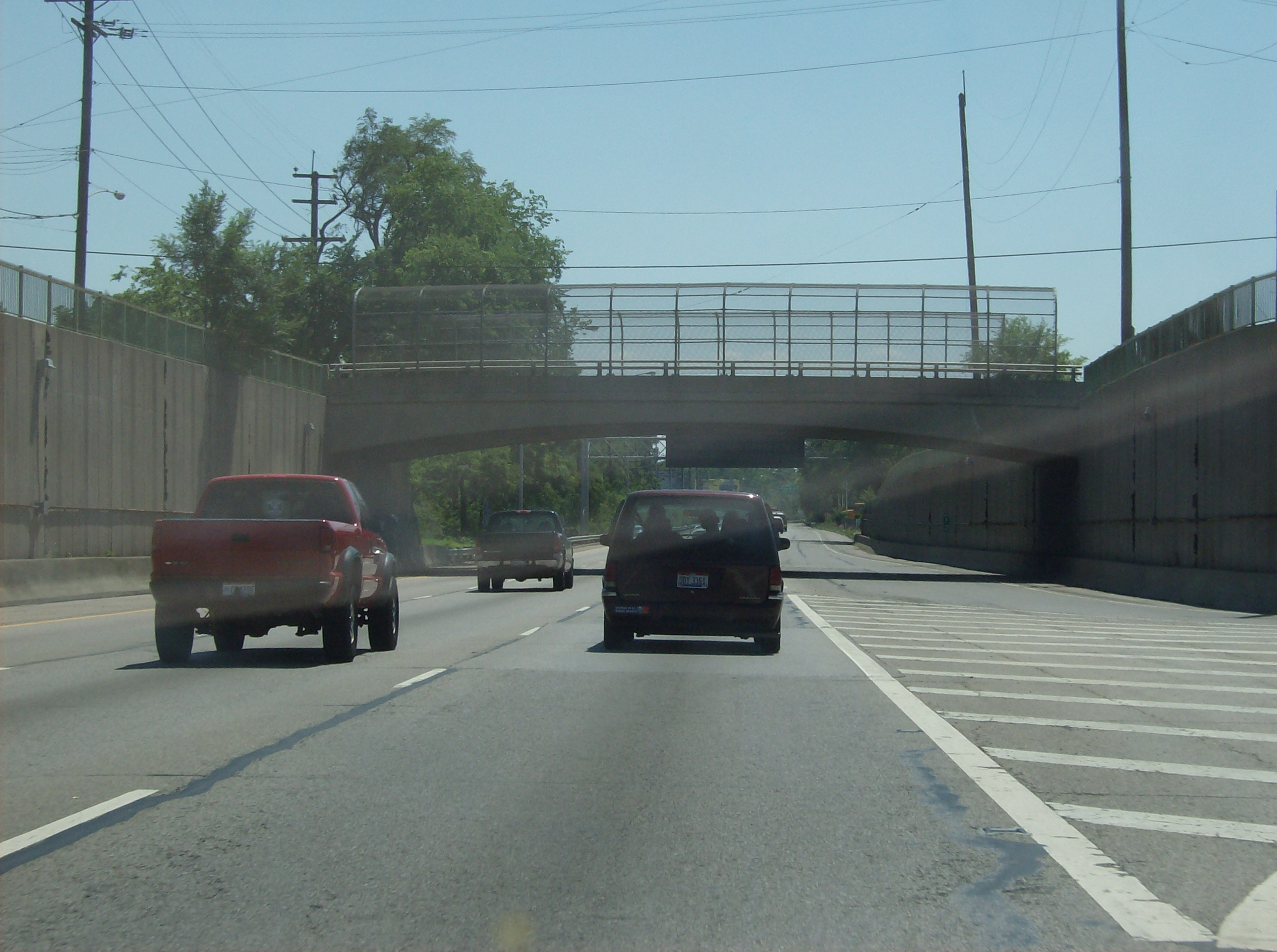 Along southbound Interstate 75 through the old canal route in Lockland, Ohio, United States.